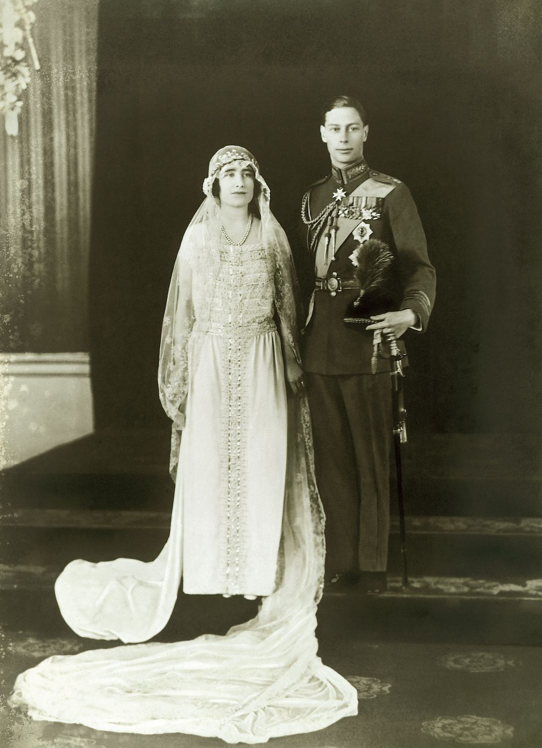 Prince Albert, Duke of York (future George VI) and Elizabeth Bowes-Lyon at ther wedding. Prince Albert is wearing the full dress uniform of the Royal Air Force with the rank of group captain.